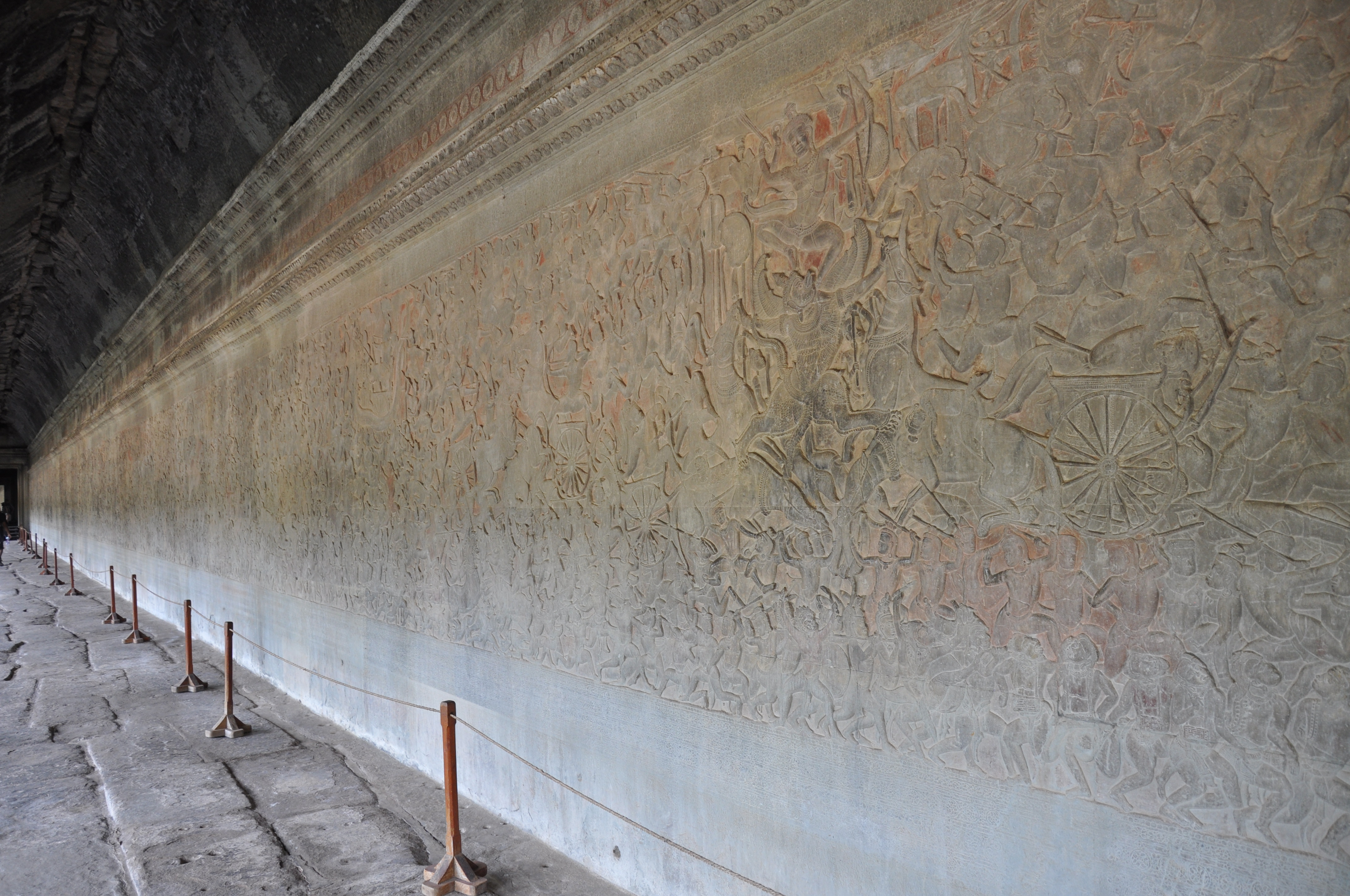 Angkor Wat is a temple complex at Angkor, Cambodia, built for the king Suryavarman II in the early 12th century as his state temple and capital city. As the best-preserved temple at the site, it is the only one to have remained a significant religious centre since its foundation – first Hindu, dedicated to the god Vishnu, then Buddhist. It is the world's largest religious building. The temple is at the top of the high classical style of Khmer architecture. It has become a symbol of Cambodia, appearing on its national flag, and it is the country's prime attraction for visitors. Angkor Wat combines two basic plans of Khmer temple architecture: the temple mountain and the later galleried temple, based on early South Indian Hindu architecture, with key features such as the Jagati. It is designed to represent Mount Meru, home of the devas in Hindu mythology: within a moat and an outer wall 3.6 kilometres (2.2 mi) long are three rectangular galleries, each raised above the next. At the centre of the temple stands a quincunx of towers. Unlike most Angkorian temples, Angkor Wat is oriented to the west; scholars are divided as to the significance of this. The temple is admired for the grandeur and harmony of the architecture, its extensive bas-reliefs, and for the numerous devatas (guardian spirits) adorning its walls. The modern name, Angkor Wat, means "City Temple"; Angkor is a vernacular form of the word nokor , which comes from the Sanskrit word nagar, Thai, Nakon, meaning capital or city. Wat is the Khmer word which comes from Sanskrit word "Vastu". Prior to this time the temple was known as Preah Pisnulok (Vara Vishnuloka in Sanskrit), after the posthumous title of its founder, Suryavarman II